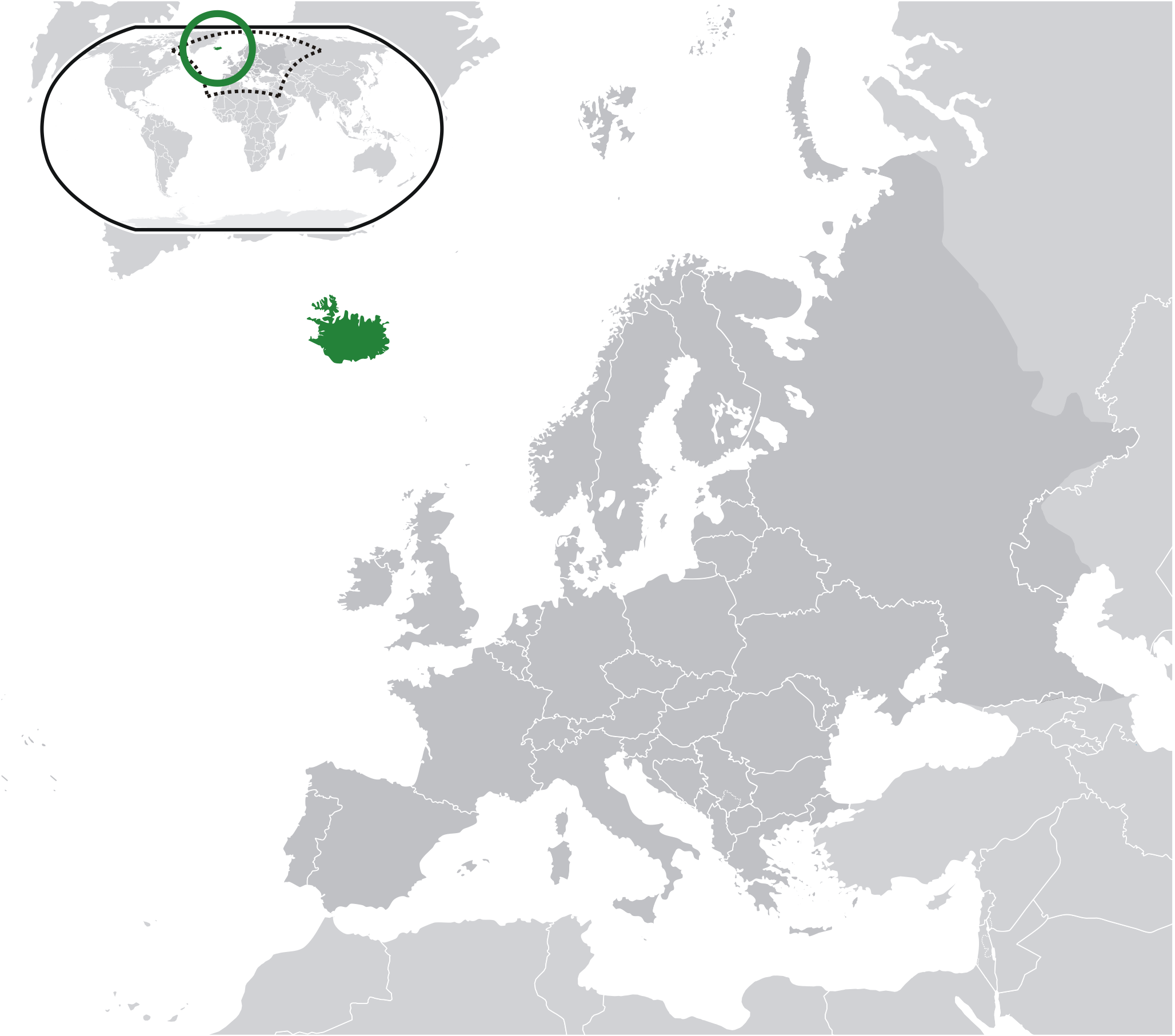 Iceland (green): inspired by and consistent with general country locator maps by User:Vardion, et al